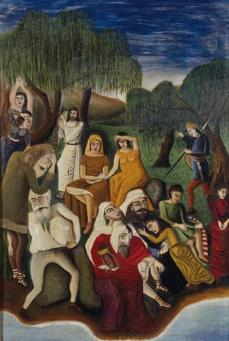 Adalbert Trillhaase (1858 - 1936) Der gefangenen Juden Klagelied, um 1925 Clemens-Sels-Museum Neuss, Germany